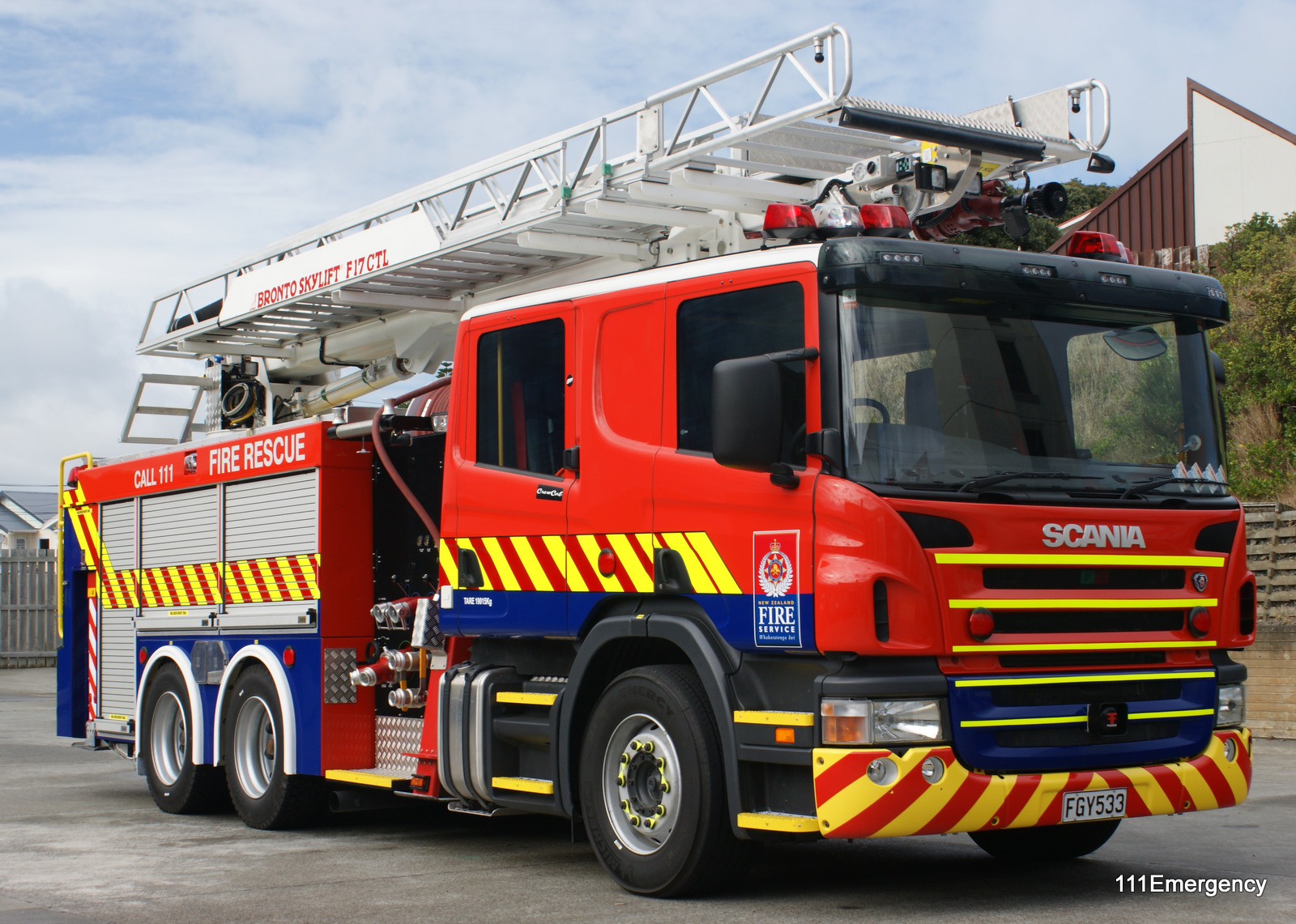 Invercargill's type 4 17m Bronto Appliance in the new corperate colour scheme